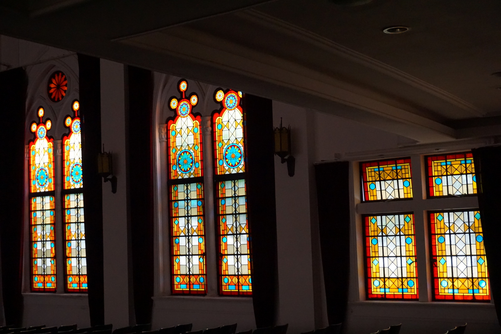 Shanghai No. 3 Girls' High School, stained glass in theater